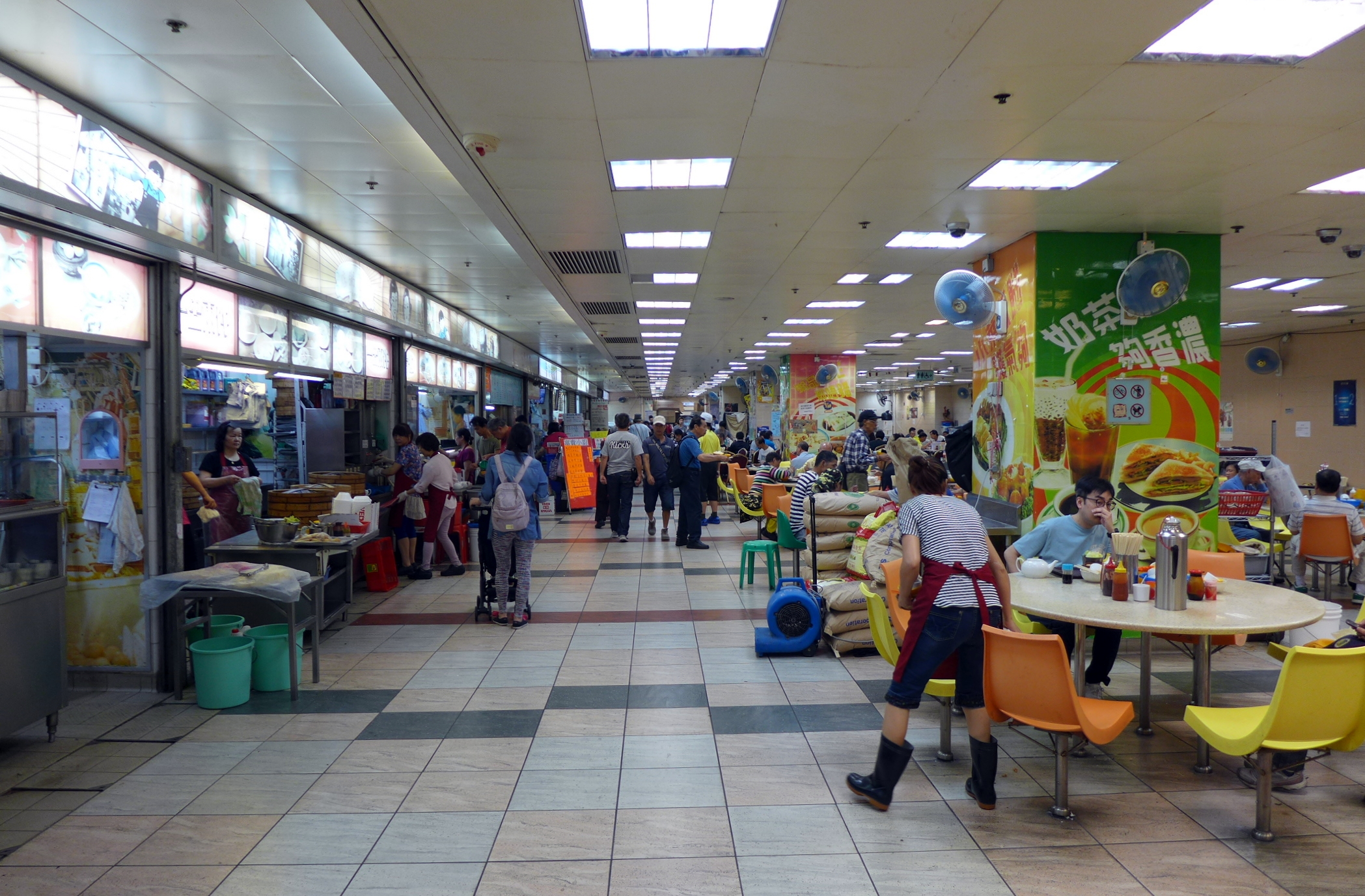 Luen Wo Hui Cooked Centre